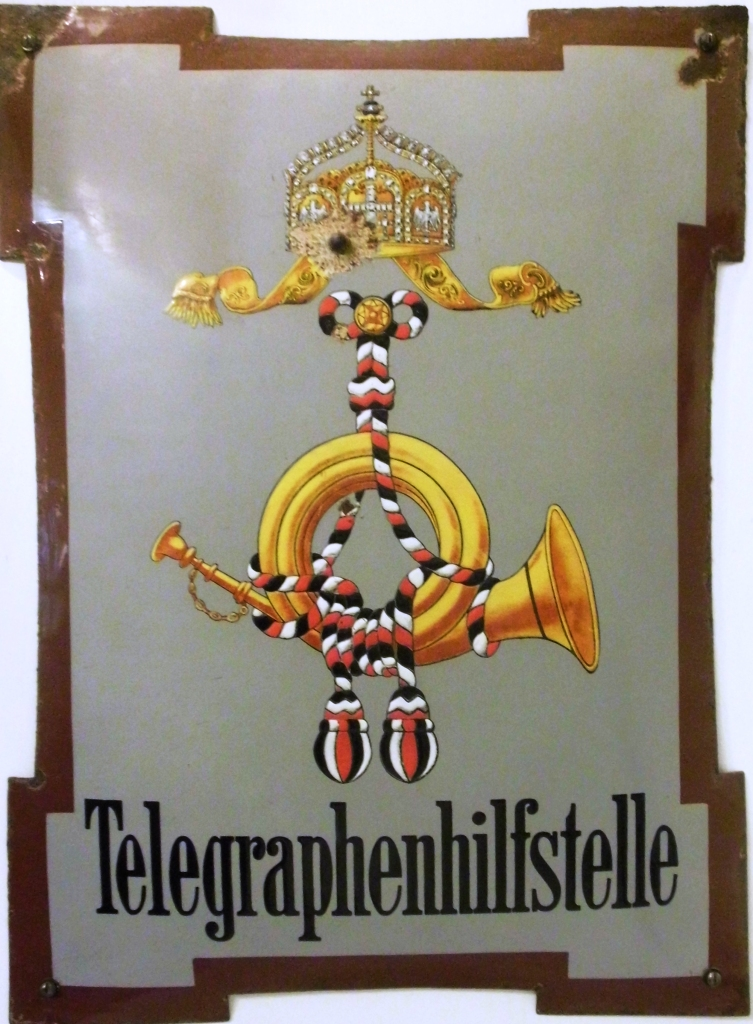 Sign for a public phone in a post office in 1885. (A literal translation of the caption on the sign is "Telegraph auxiliary point")